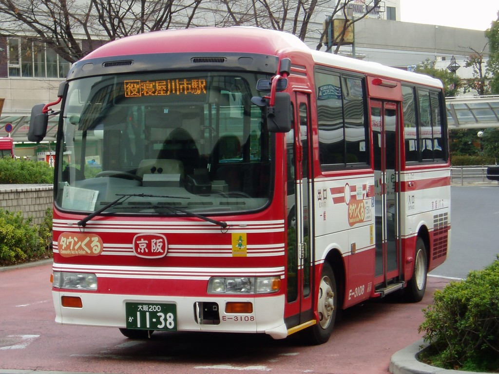 Hino L'iesse for Keihanbus,use for "TOWN-KURU" community bus in Neyagawa-City